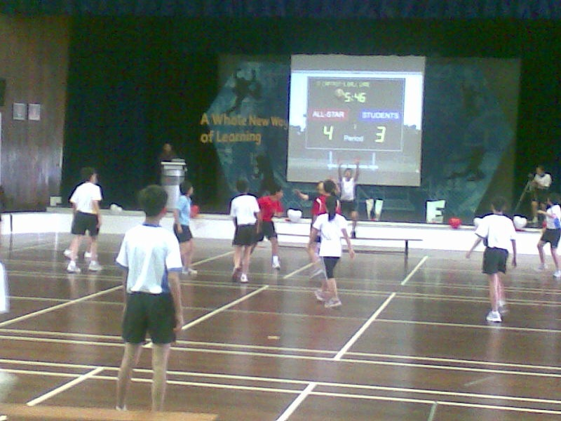 A game of captain's ball between teachers and students to celebrate Teachers' Day at the School of Science and Technology, Singapore.